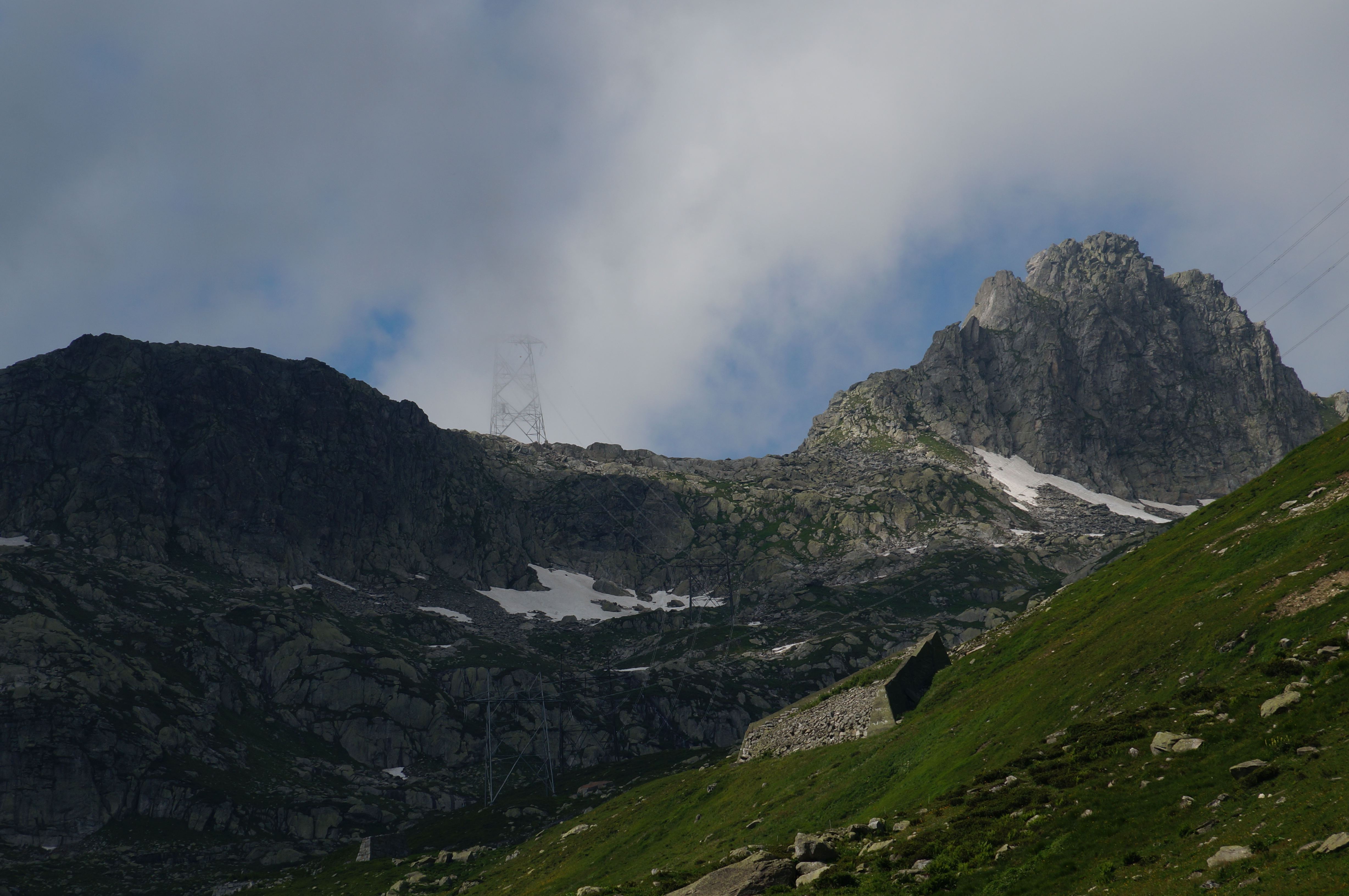 Electricity pylon on Mittelplatten pass covered in clouds – seen from Val Milà, Graubünden, Switzerland